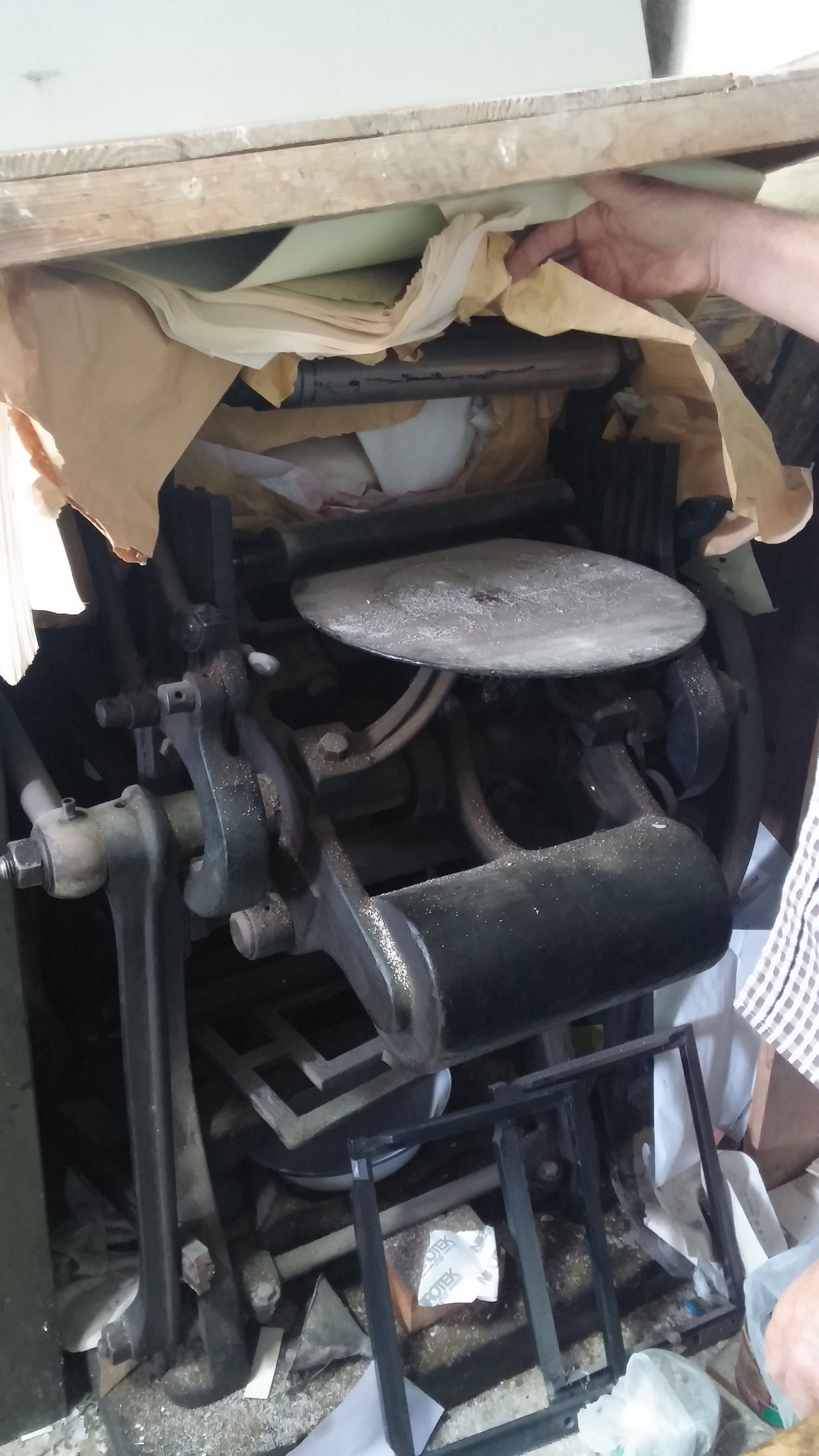 JOSEF ANGER & SOHNE press machin